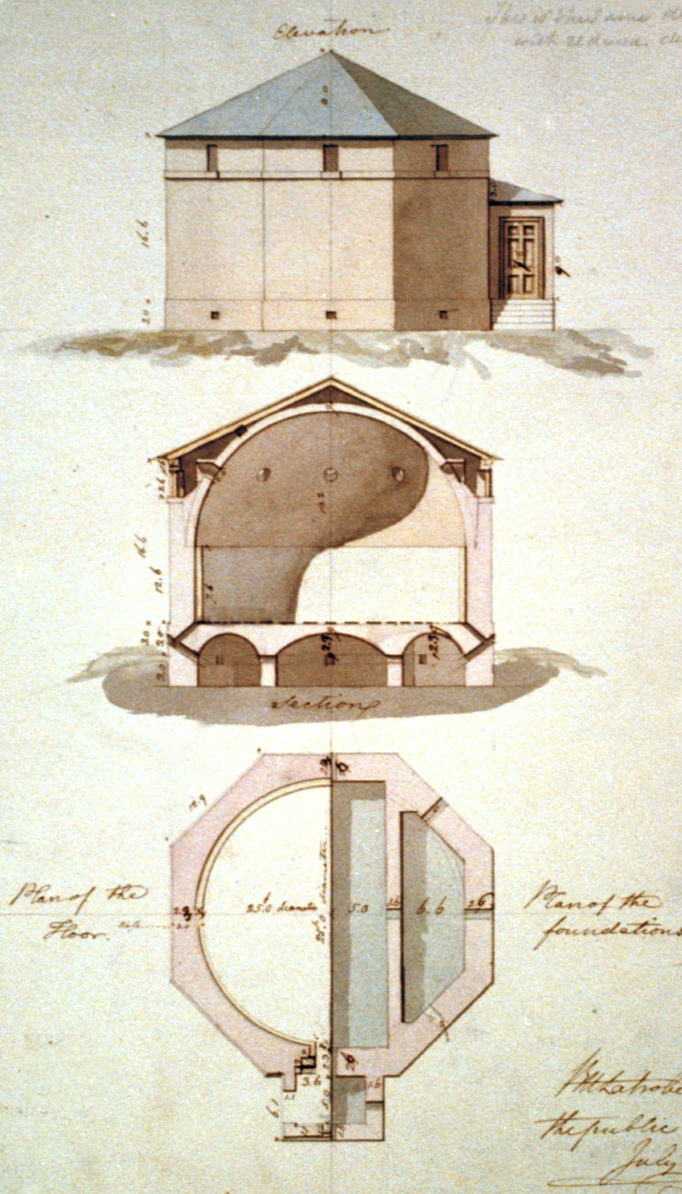 Detail of an ink and wash drawing by Benjamin Henry Latrobe for a proposed gunpowder magazine at the Gosport Naval Yard (now Norfolk Naval Shipyard), in Portsmouth, Virginia.